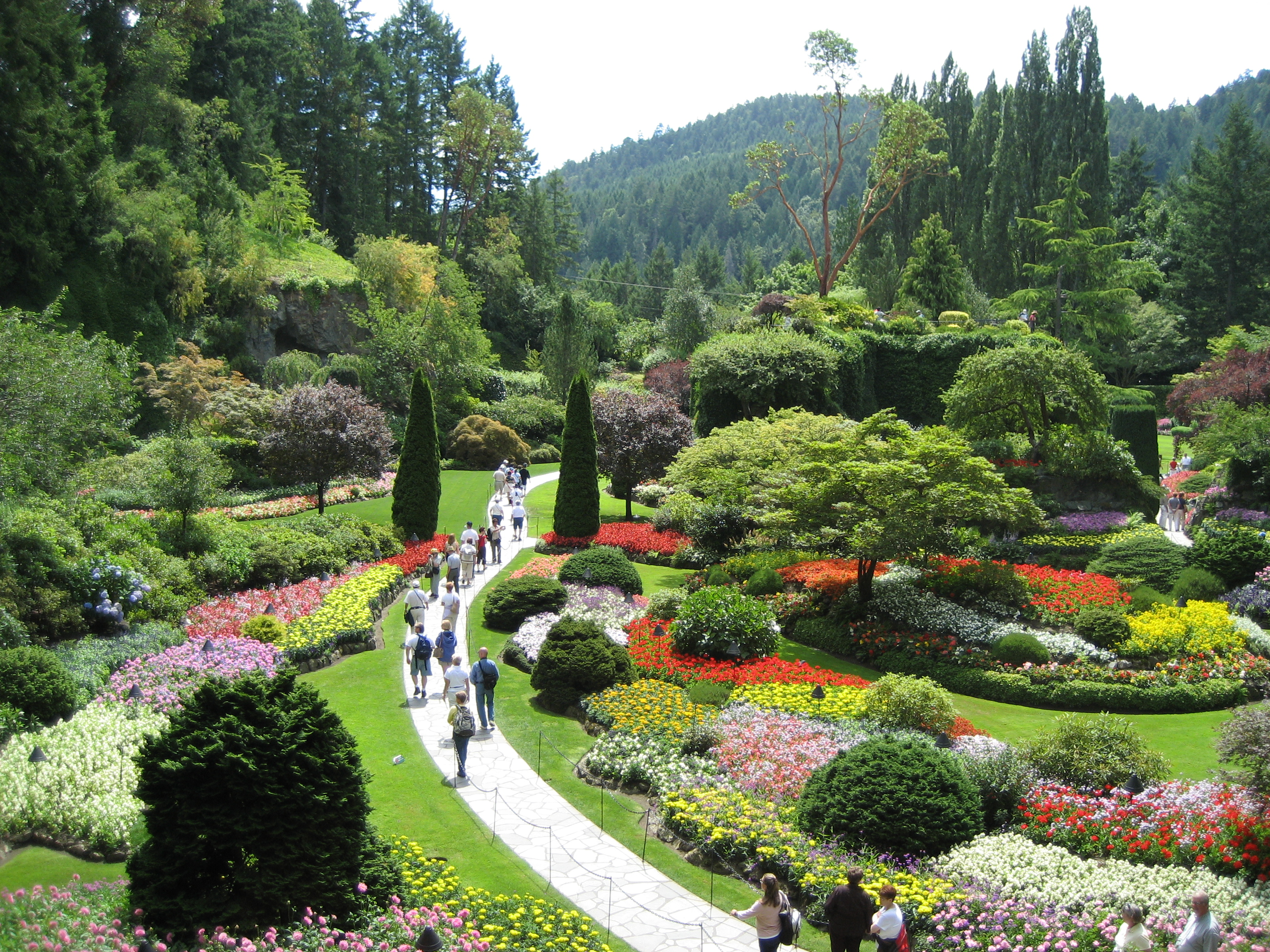 The Butchart Gardens, BC, Canada